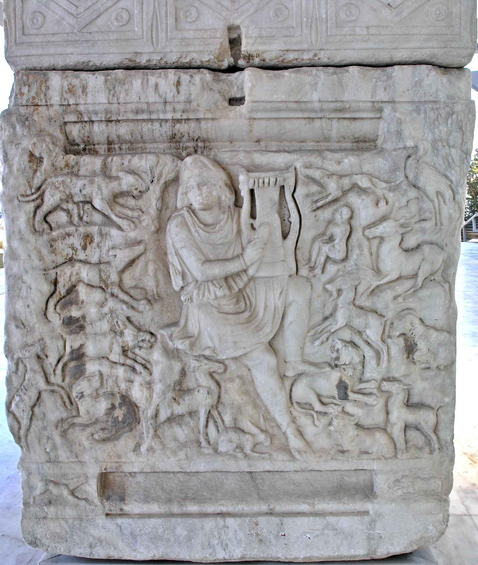 Sculpted neo attic sarcophagus representing Orpheus among the beasts, in the Thessaloniki Archaeological Museum, inv. 1246. Second quarter of the 3rd c. AD. Photograph taken by Marsyas 17:52, 25 February 2006 (UTC)